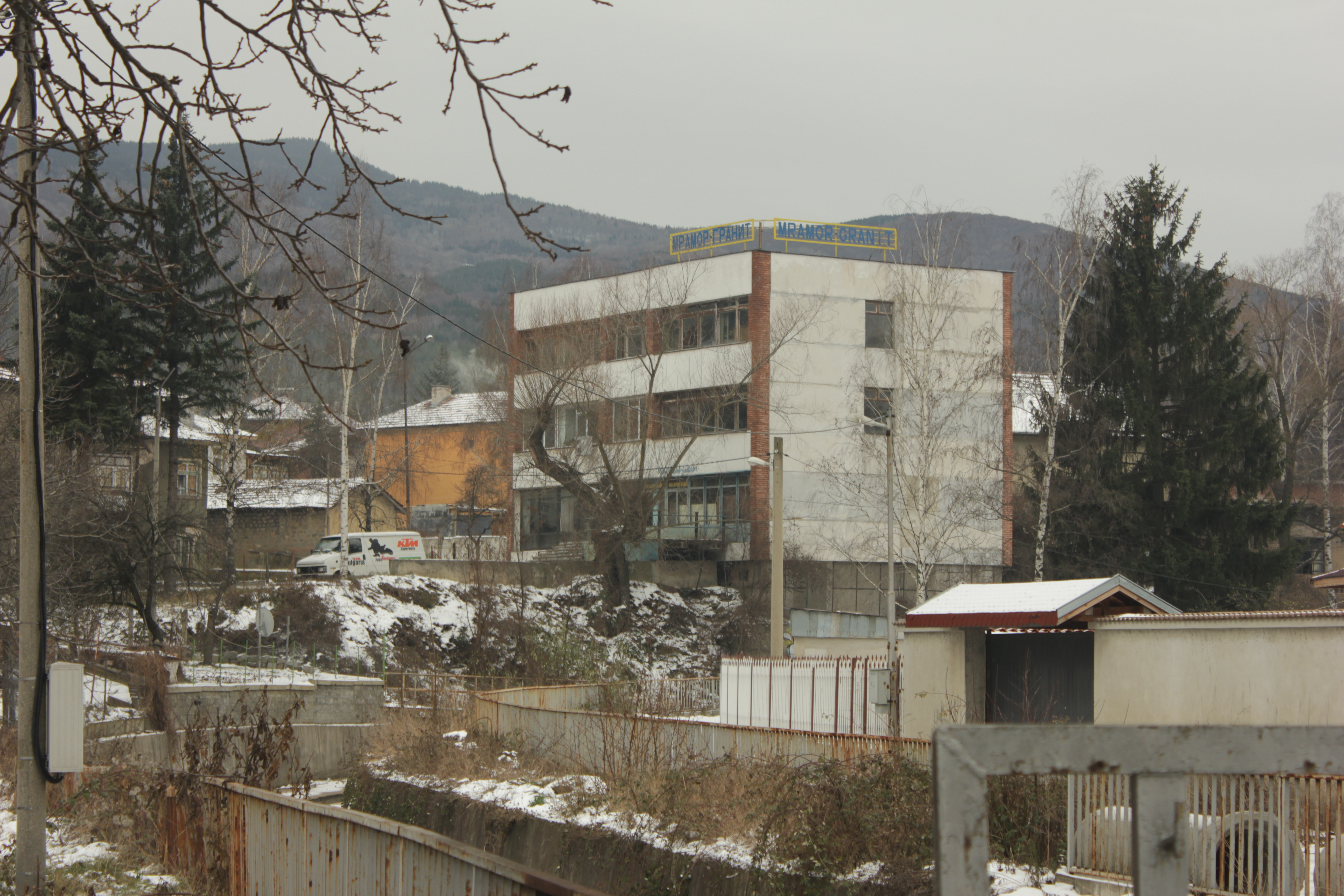 Mramor-Granit Building of a granite quarry company in Vladaya, Bulgaria